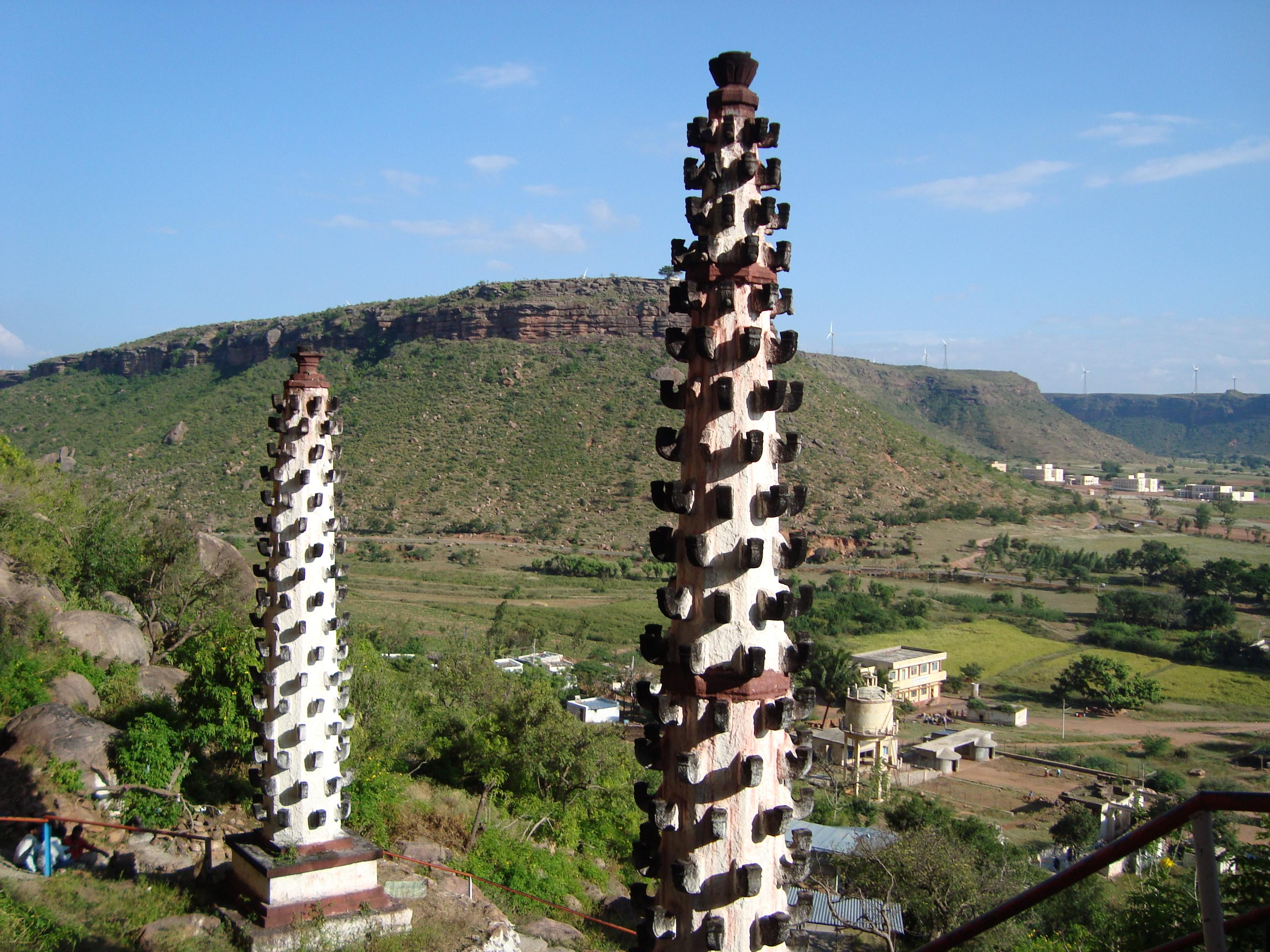 Gajendrgad Kalkaleshwara temple.